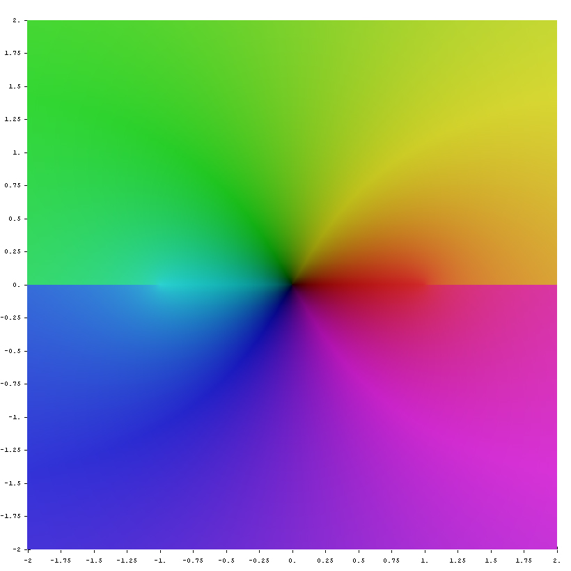 function ArcSin[z] in the complex plane